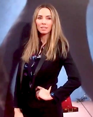 Whitney Cummings in 2016